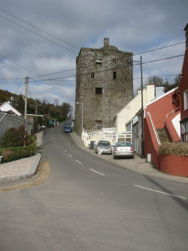 Title=Ballyhack Castle, Co. Wexford, Ireland. Source= Author= superminx @flickr.com - Uploaded on 10 April, 2007. Conditions of Use: No Derivative Works (which means: You let others copy, distribute, display, and perform only verbatim copies of this work, not derivative works based upon it).